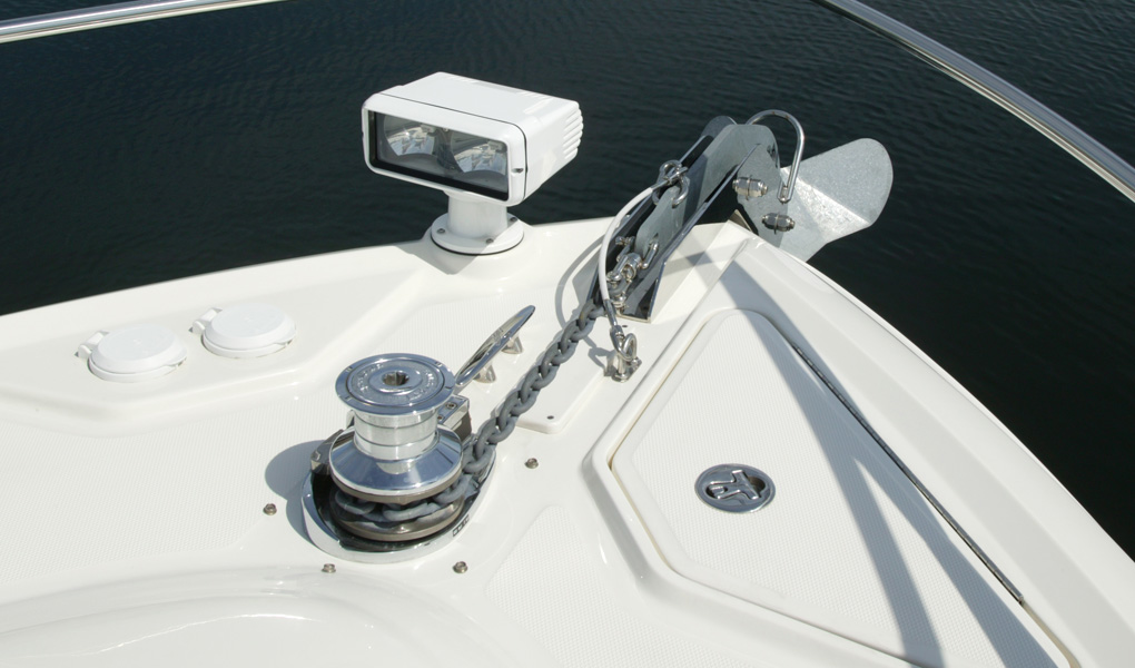 Capstan winch on a boat.